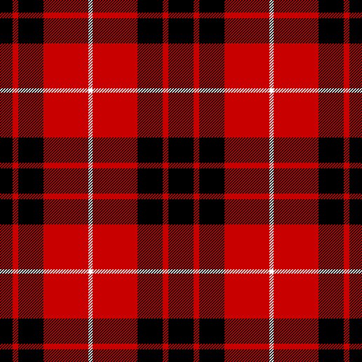 Munro tartan, as published in the Vestiarium Scoticum. Modern thread count: Bk36 R8 Bk36 R64 W6.